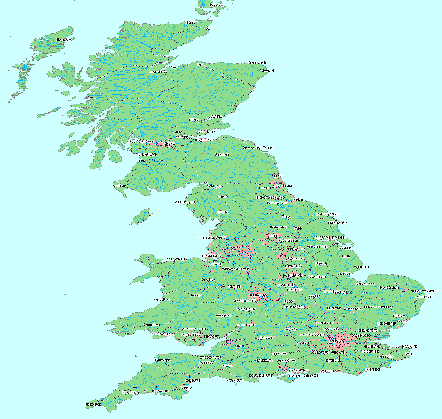 Map of Railways in Great Britain with settlements. Created from demis.nl map tiles compilation.